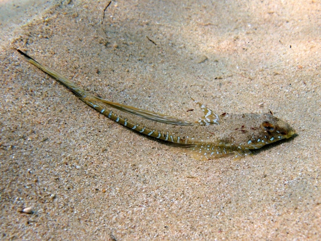 Male Callionymus pusillus photographed in Koufonissi waters (Greece). Photo by Roberto Pillon.